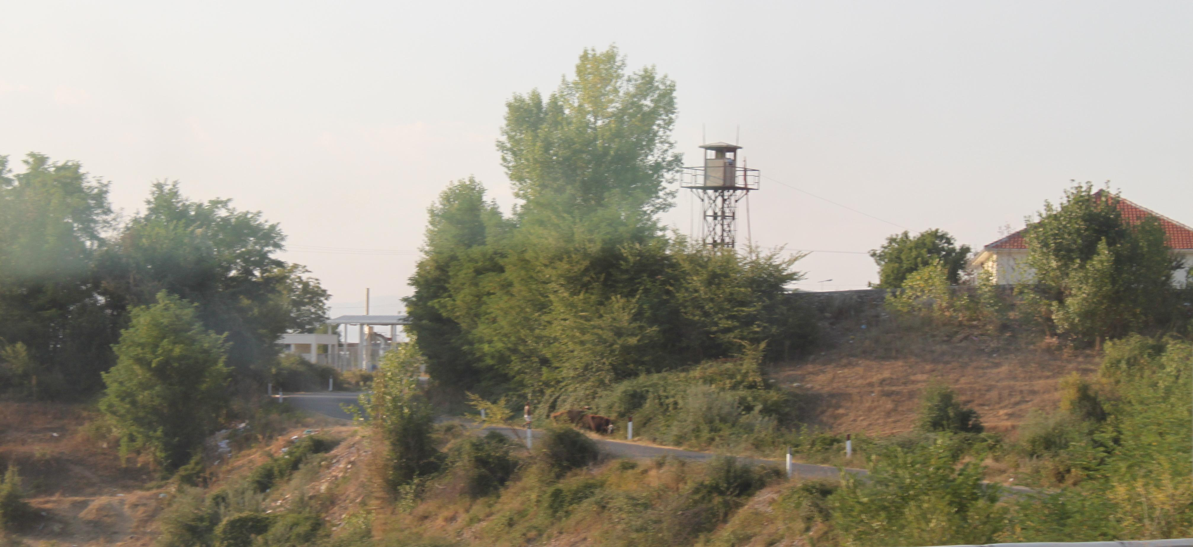 Albania – Macedonia border at Bilato/Bilaté Guarded by watchtower on the albanian side